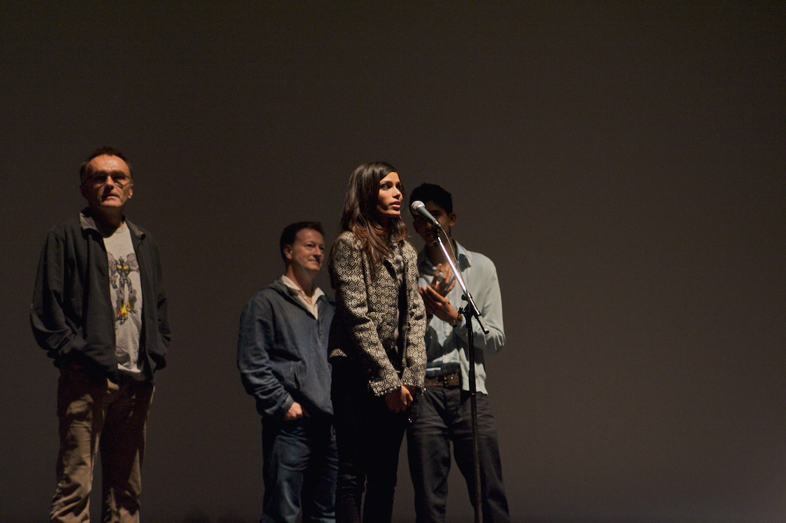 TIFF 2008, Slumdog Millionaire screening at Ryerson, Danny Boyle, Simon Beaufoy, Freida Pinto & Dev Patel